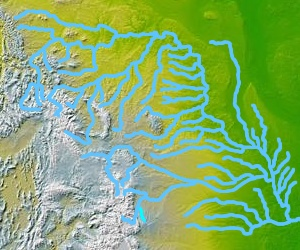 Cherry Creek in Colorado © 2004 Matthew Trump